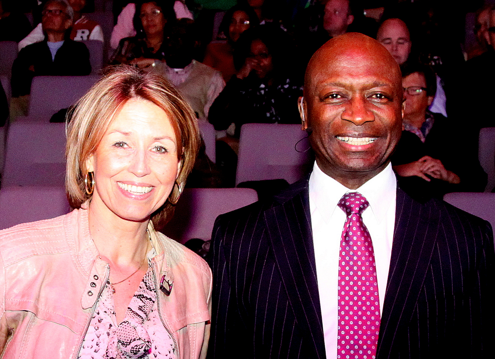 Pastor Edgar Holder and his wife of the pentecostal church the living stone in Spijkenisse